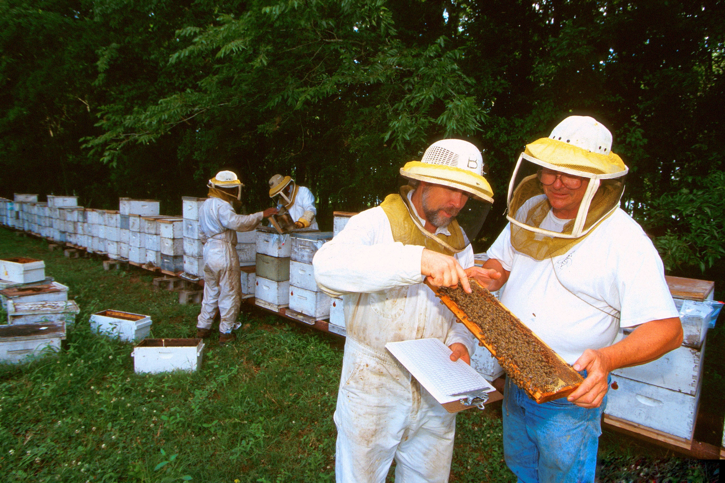 U.S.Department of Agriculture (USDA) Agricultural Research Service (ARS) geneticist Tom Rinderer (right foreground) and beekeeping cooperator Steve Bernard, along with USDA ARS associates Tony Stelzer and Warren Kelley (background, L-R) of the Baton Rouge laboratory, inspect colonies of Russian and other honey bees. USDA photo by Scott Bauer.